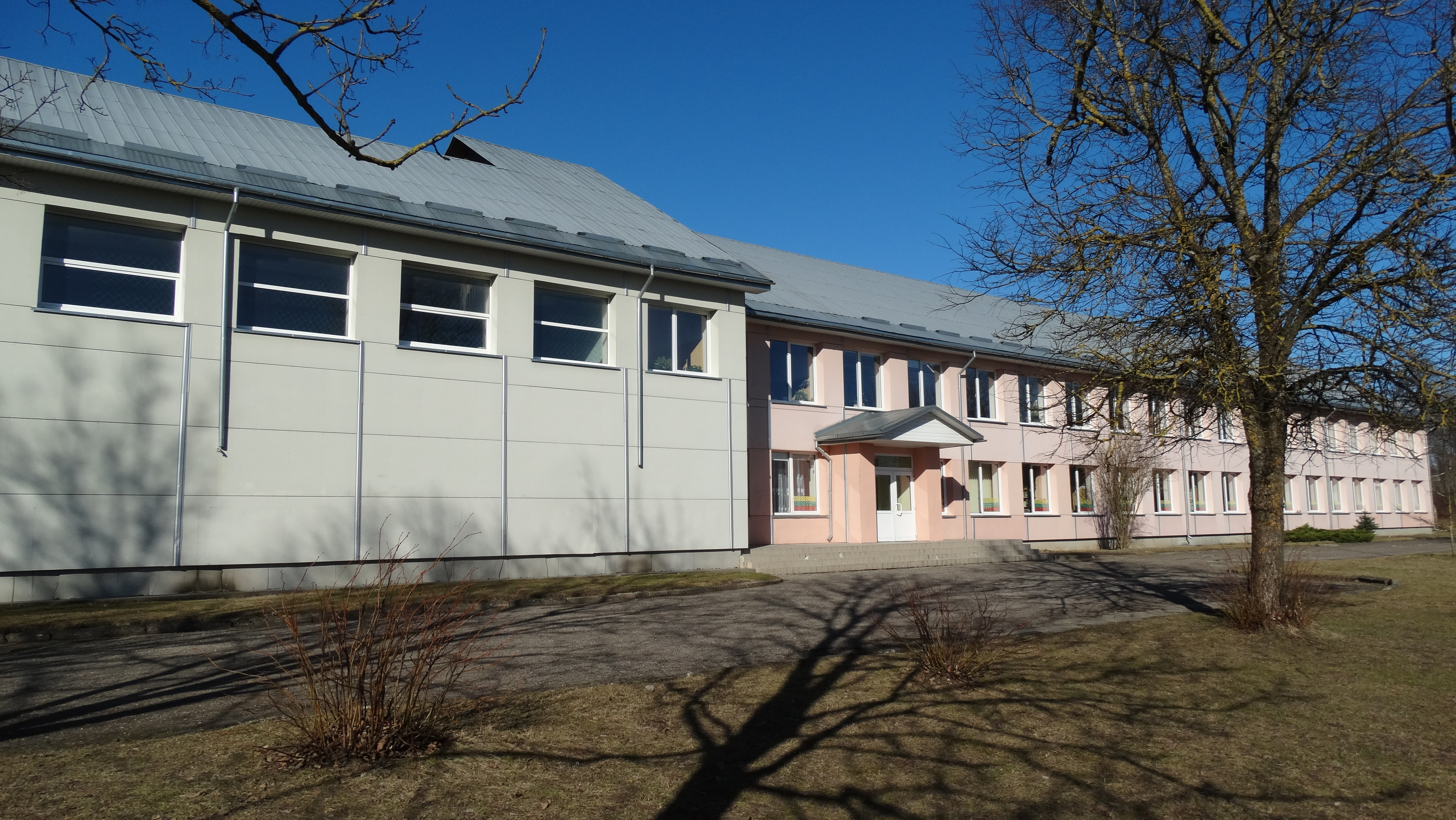 Babrungas school, Plungė, Lithuania